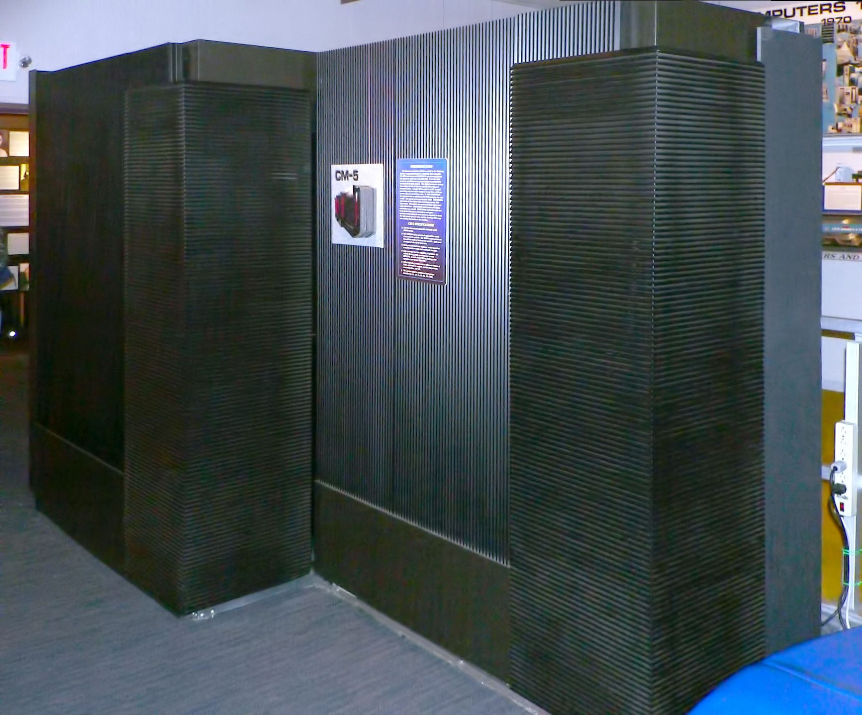 Pictures taken by myself at the US National Cryptologic Museum.